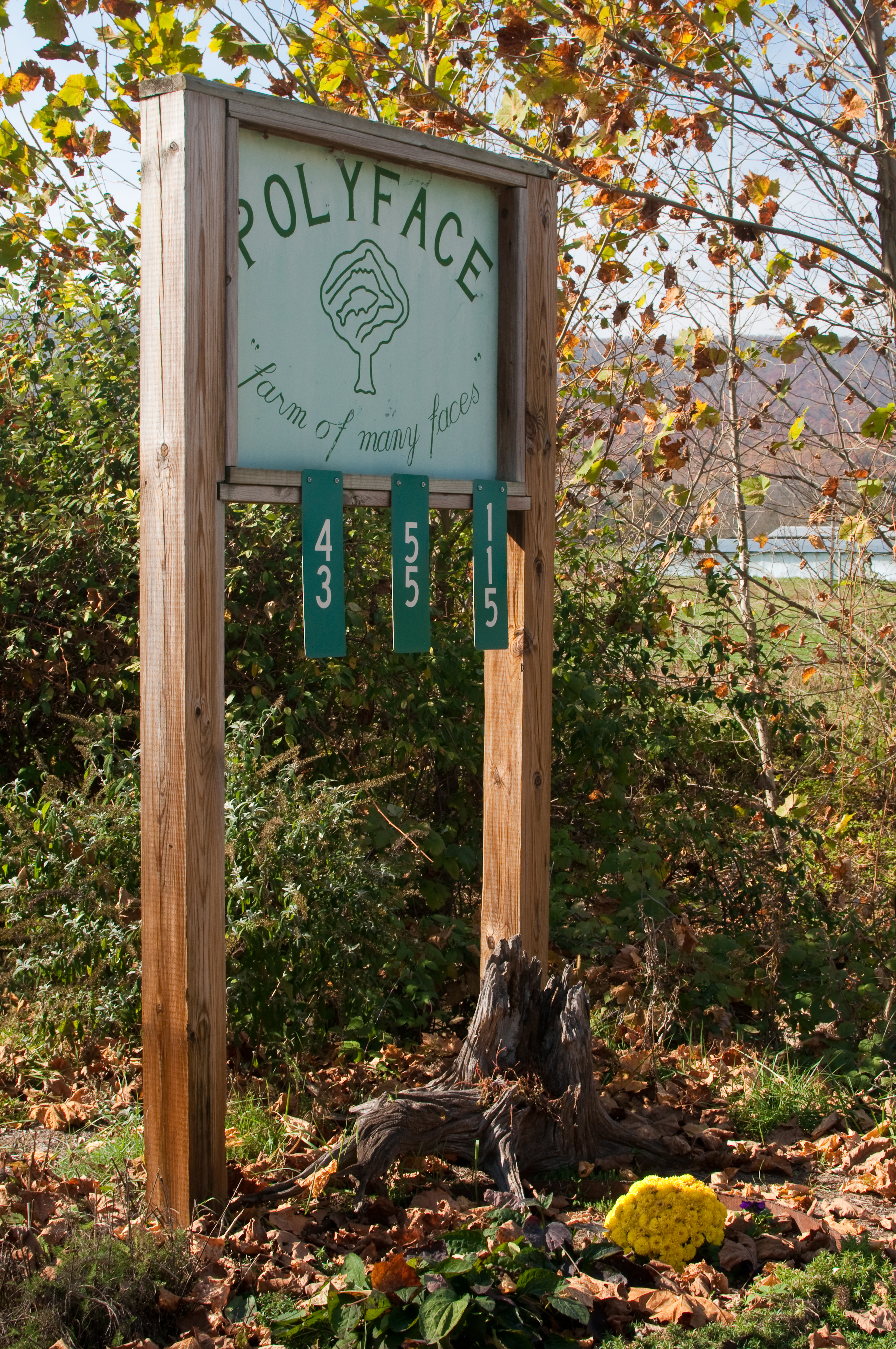 Polyface Farms sign.